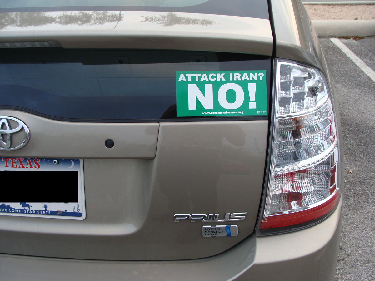 No attack Iran sticker on a vehicle in Texas.